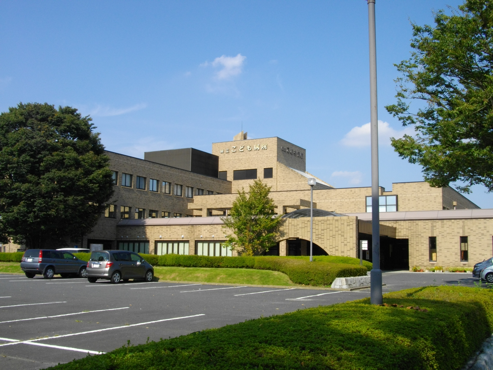 Ibaraki Children's Hospital